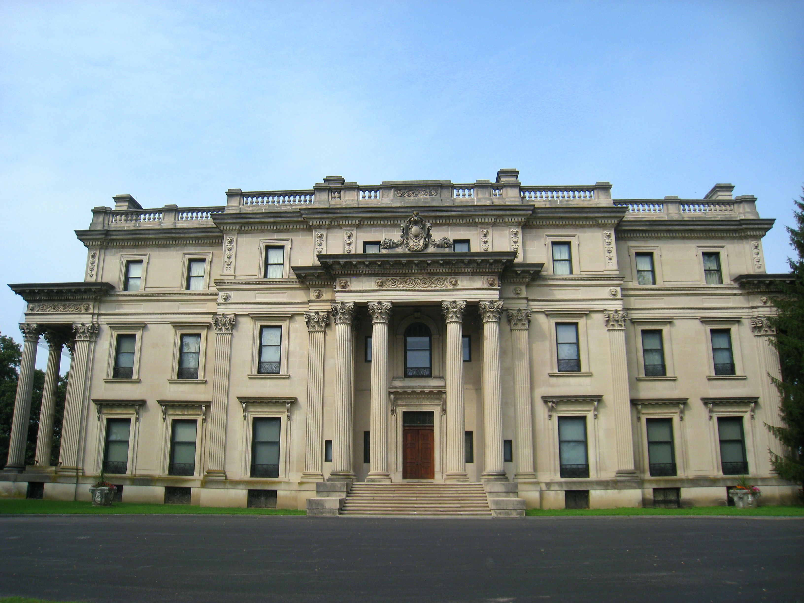 Vanderbilt Mansion National Historic Site, 4097 Albany Post Road, Hyde Park, New York, USA. Home of Frederick William Vanderbilt (1856-1938), built 1895-1898, architect Charles Follin McKim. Maintained by the U.S. National Park Service.